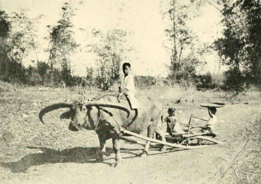 Provincial Transportation, Carabao Sled